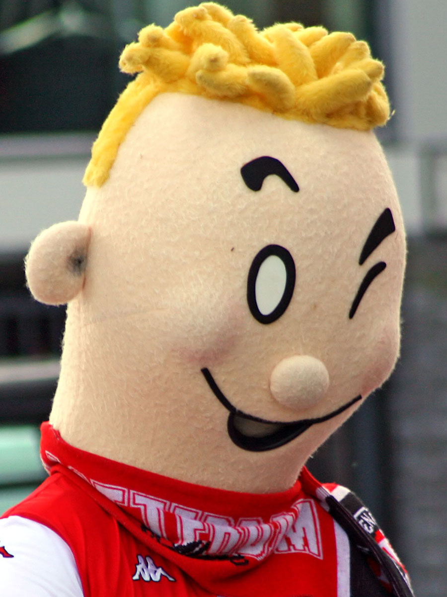 Feyenoord Training 2007-08